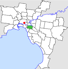 Location of the City of Prahran within Melbourne.